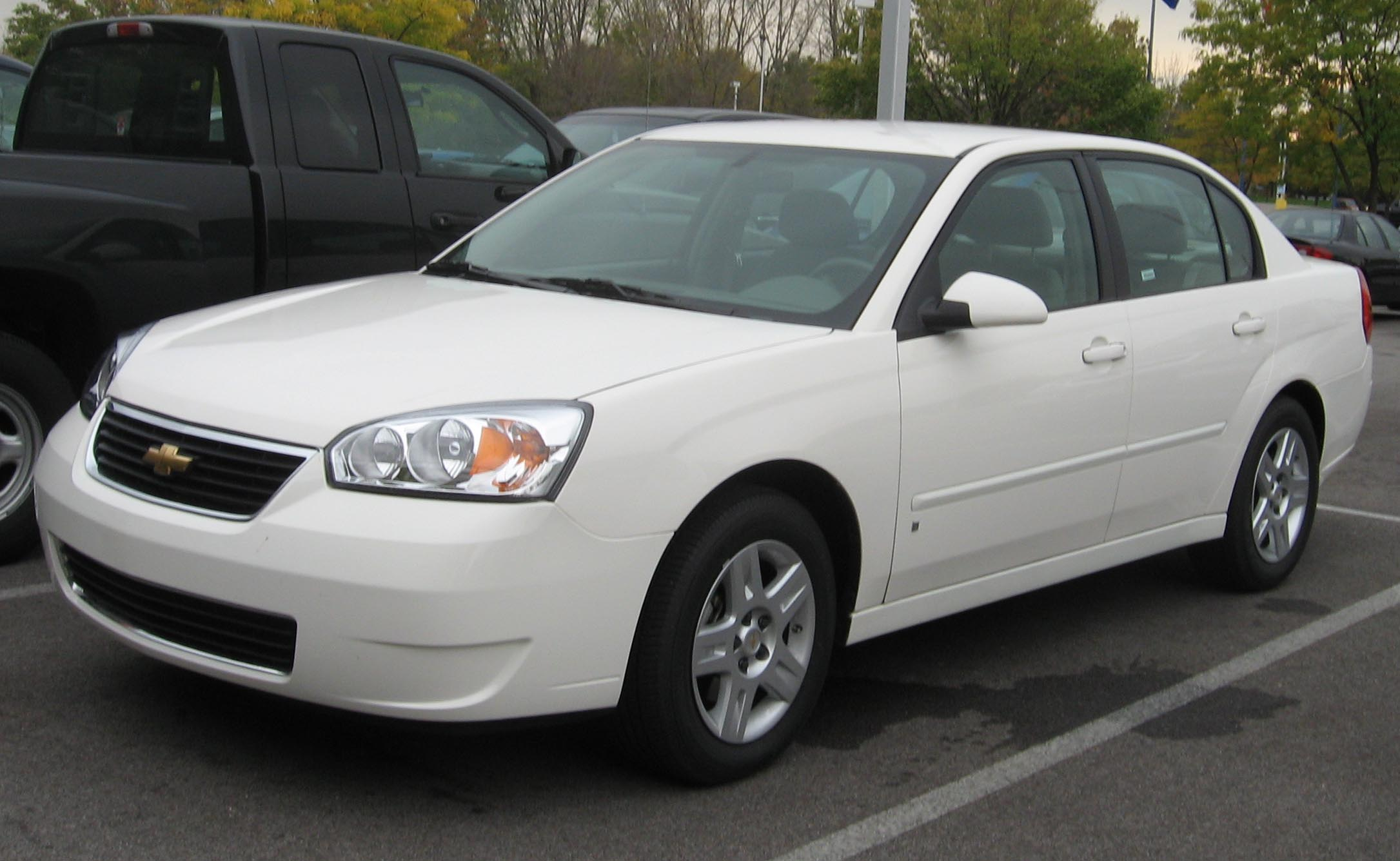 2007 Chevrolet Malibu photographed in Toledo, Ohio, USA.